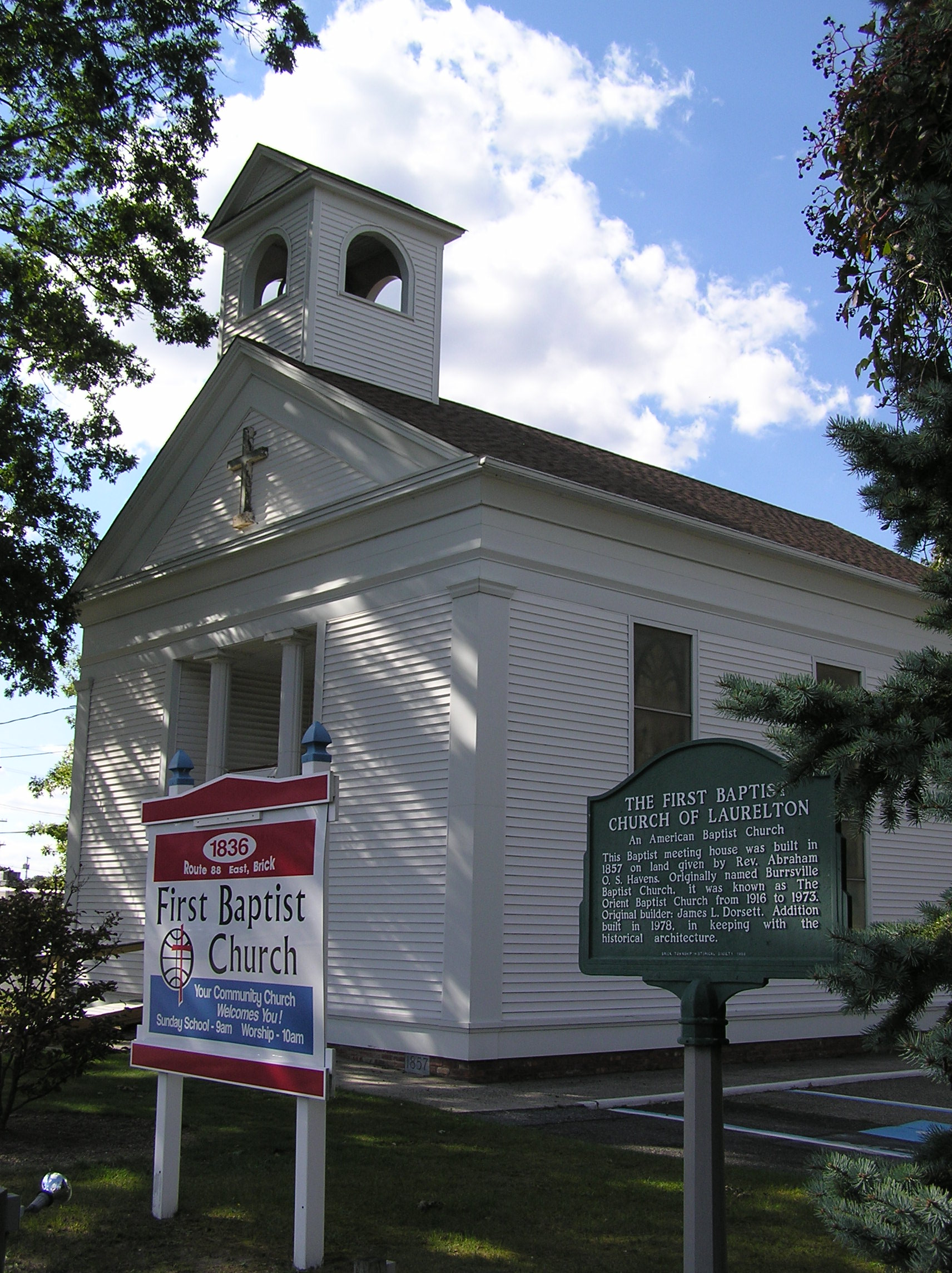 Orient Baptist Church, now known as The First Baptist Church of Laurelton, located on the north side of NJ Rt. 88 E. and Post Road, in the Laurelton section of Brick Township, NJ.